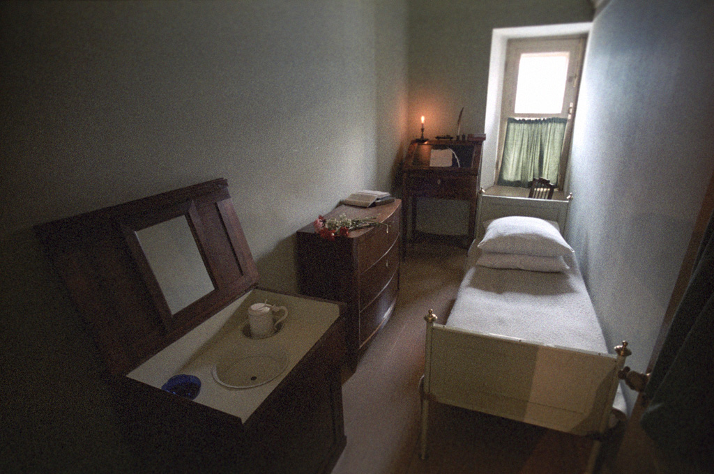 “Room No.14 in Tsarskoye Selo Lyceum”. Room No.14 where Alexander Pushkin lived when he was a student of the Imperial Lyceum in Tsarskoye Selo. Leningrad Region. 1986.